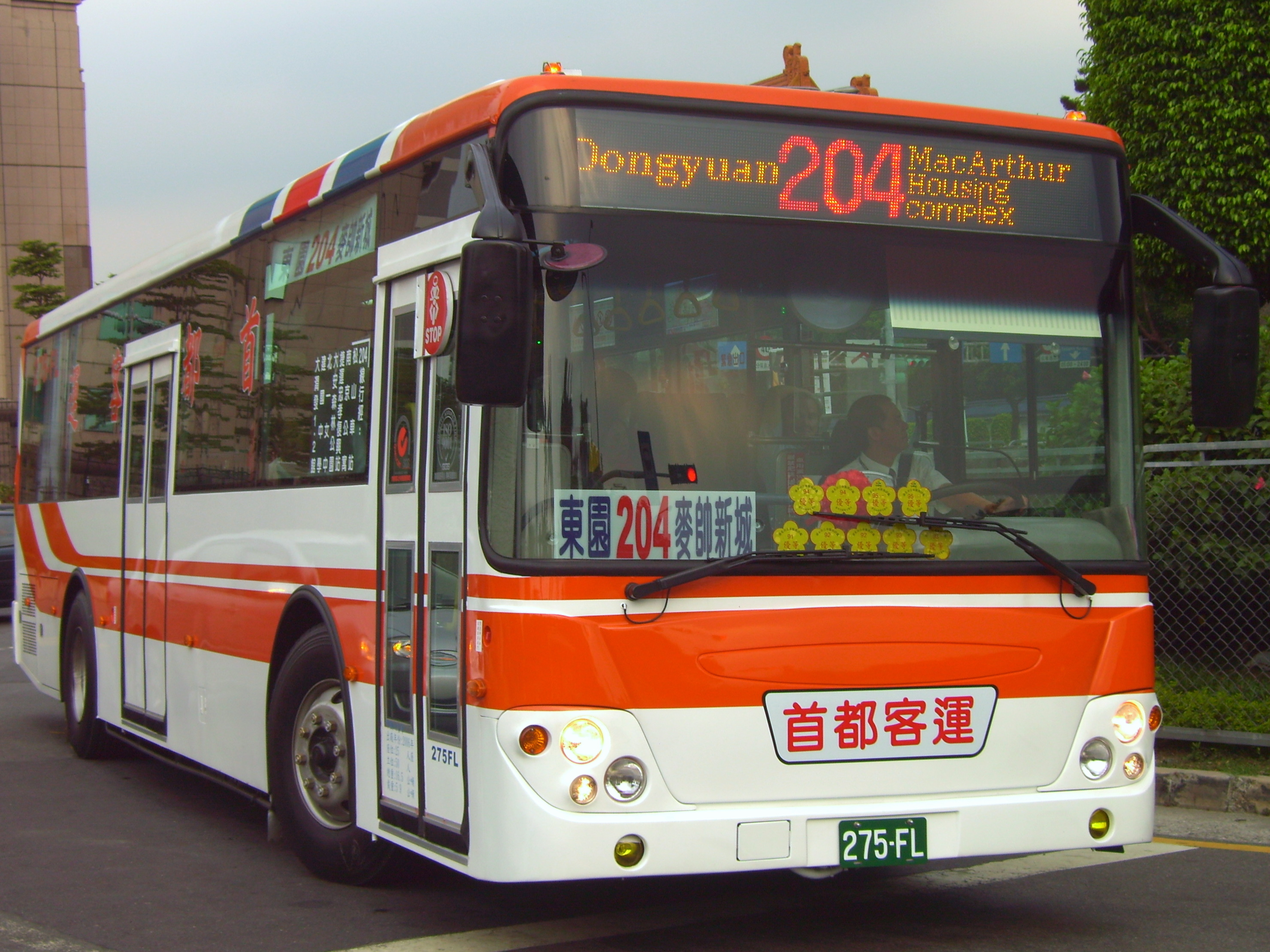 Capital Bus Co., Ltd. purchased Daewoo buses at July 2007.